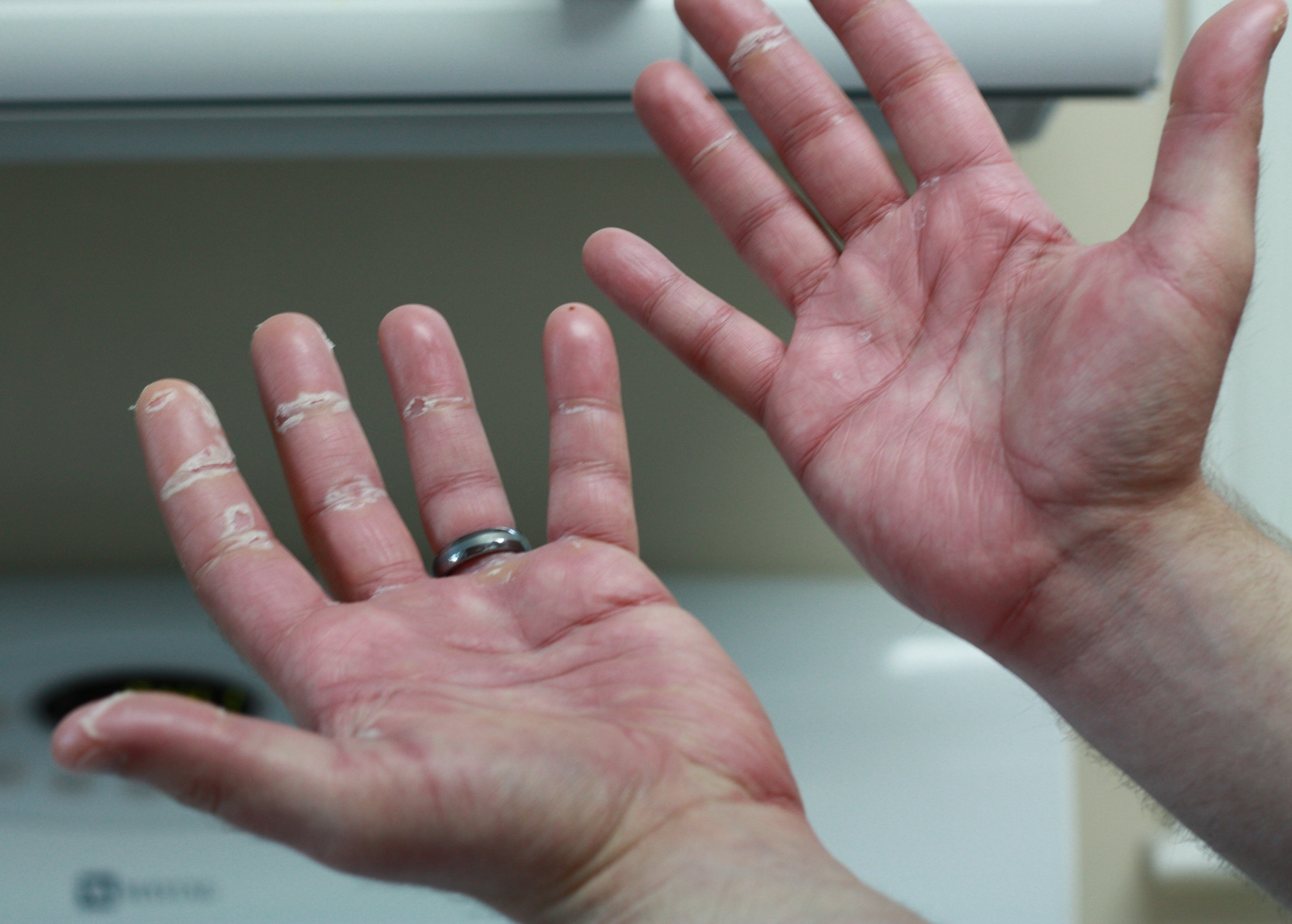 My hands after about 10 days of capecitabine showing signs of medium-severe chemotherapy-induced acral erythema (hand-foot syndrome)